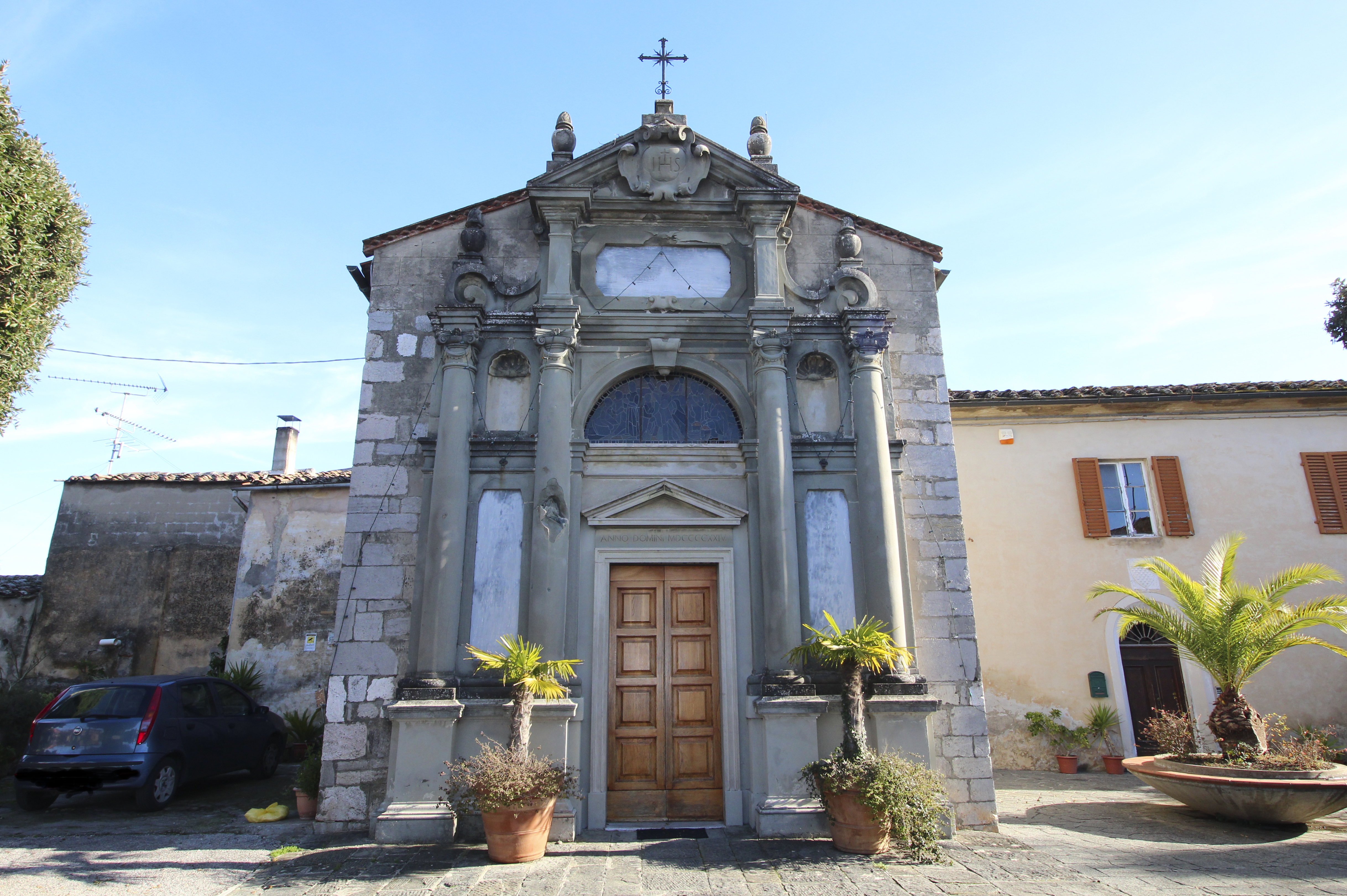 Church Sant'Andrea, Sant'Andrea in Pescaiola, hamlet of San Giuliano Terme, Province of Pisa, Tuscany, Italy